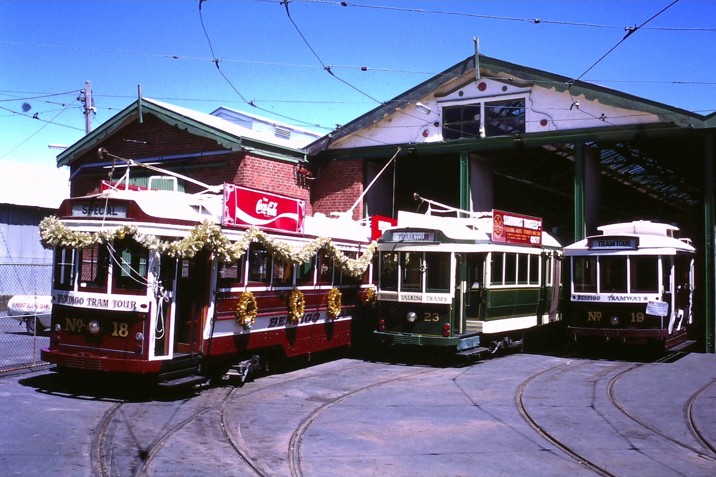 (L-R) Bendigo tramcars nos 18 (with Christmas decorations), 23 and 19, lined up at Bendigo tram depot. Kodachrome slide converted by Kaiser Baas Photo Maker Pro to digital image.